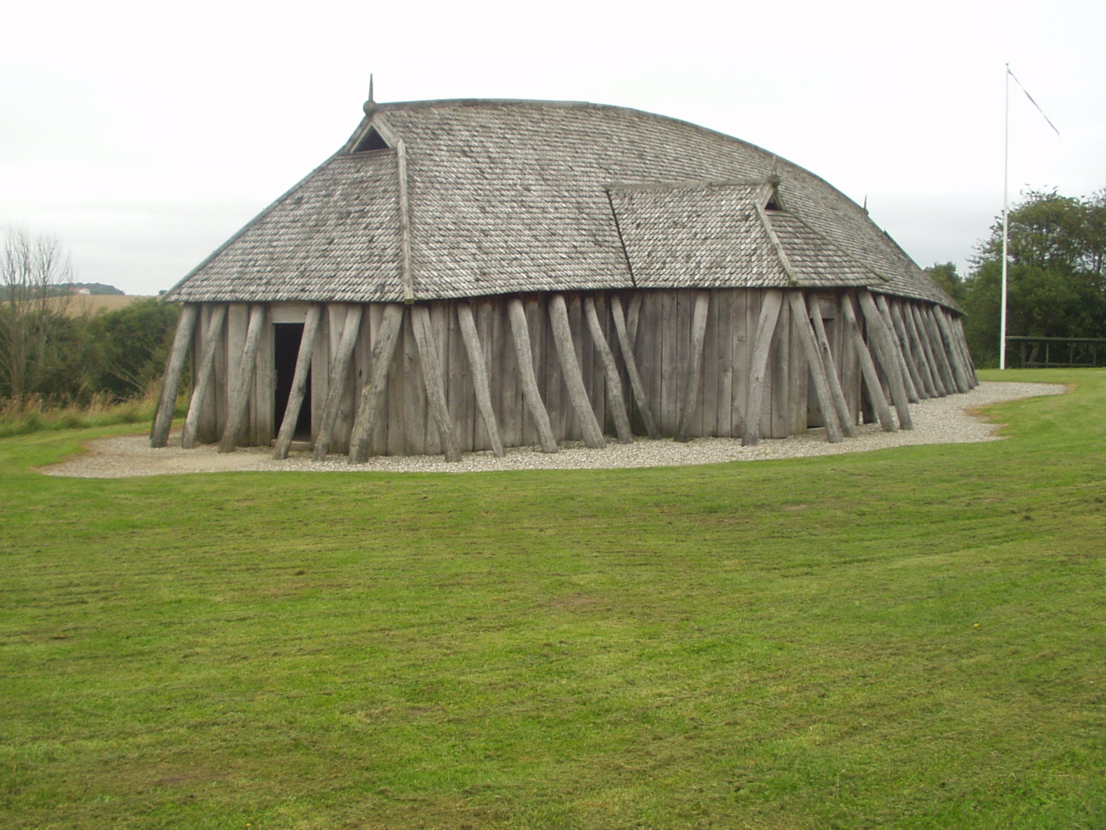 Copy of Viking Age longhouse